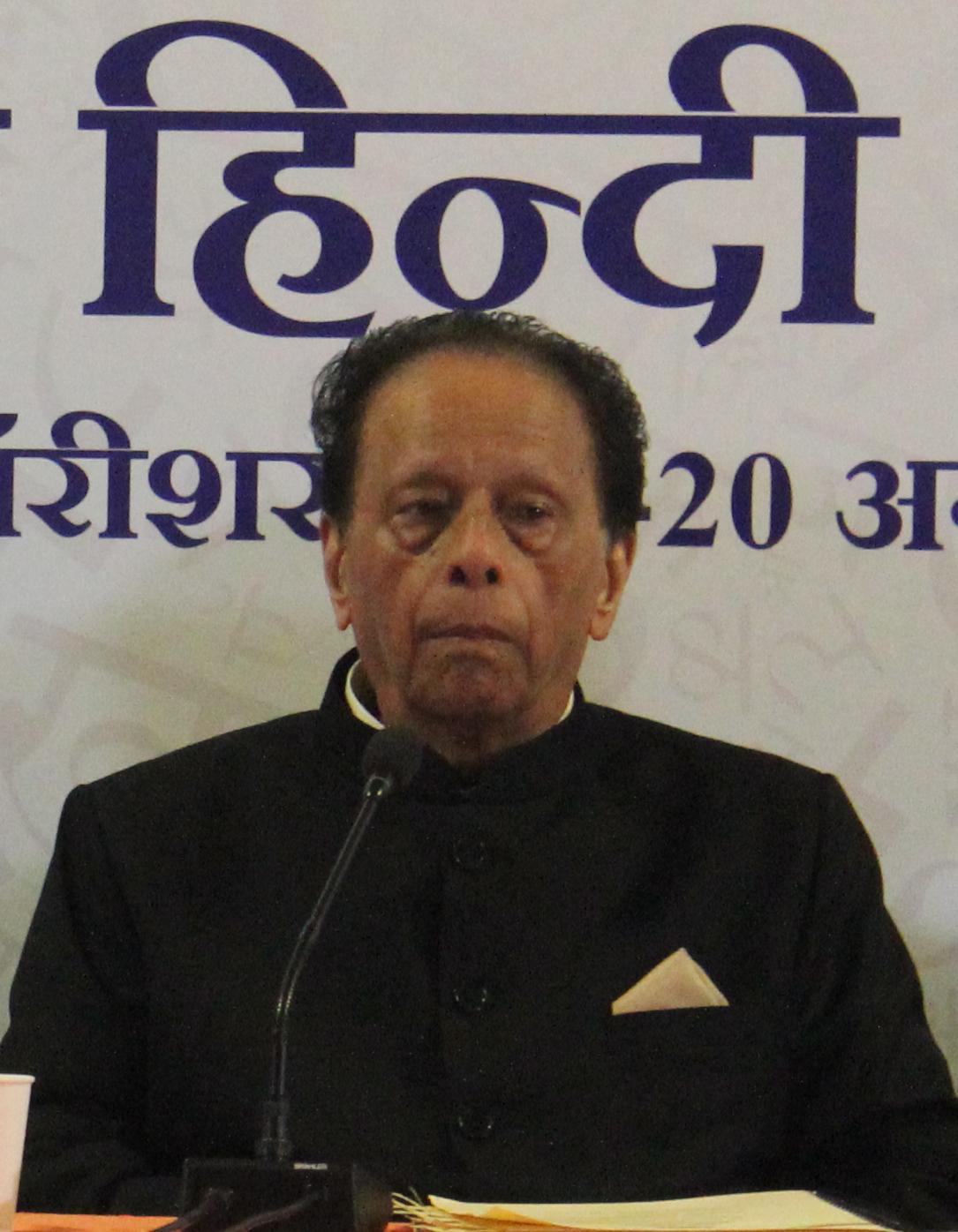 Sir Anerood Jugnauth during 11th WHC